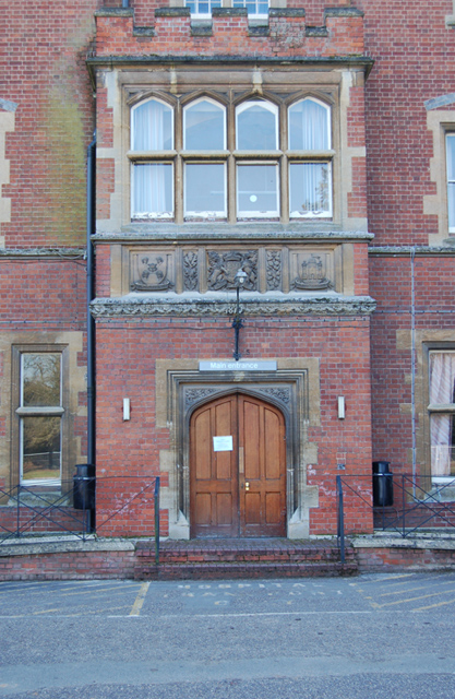 Fair Mile Hospital - Main Entrance. The imposing main entrance to the hospital. Opened in 1870 as the Berkshire County Lunatic Asylum, it eventually closed in 2003. The hospital site has been sold for redevelopment (2007) and will presumably be split into flats or apartments.